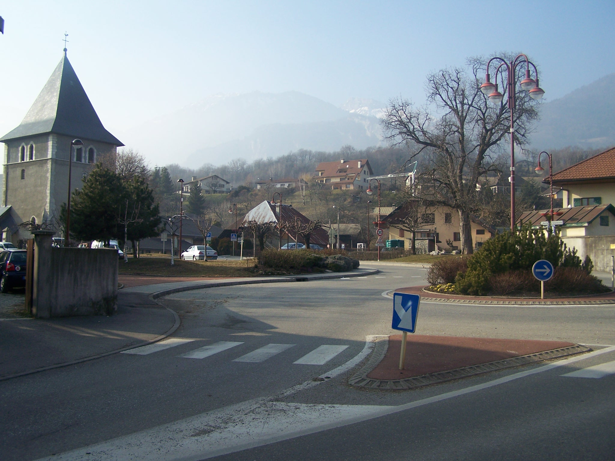 The French and Savoyan commune of Gilly sur Isère centre.